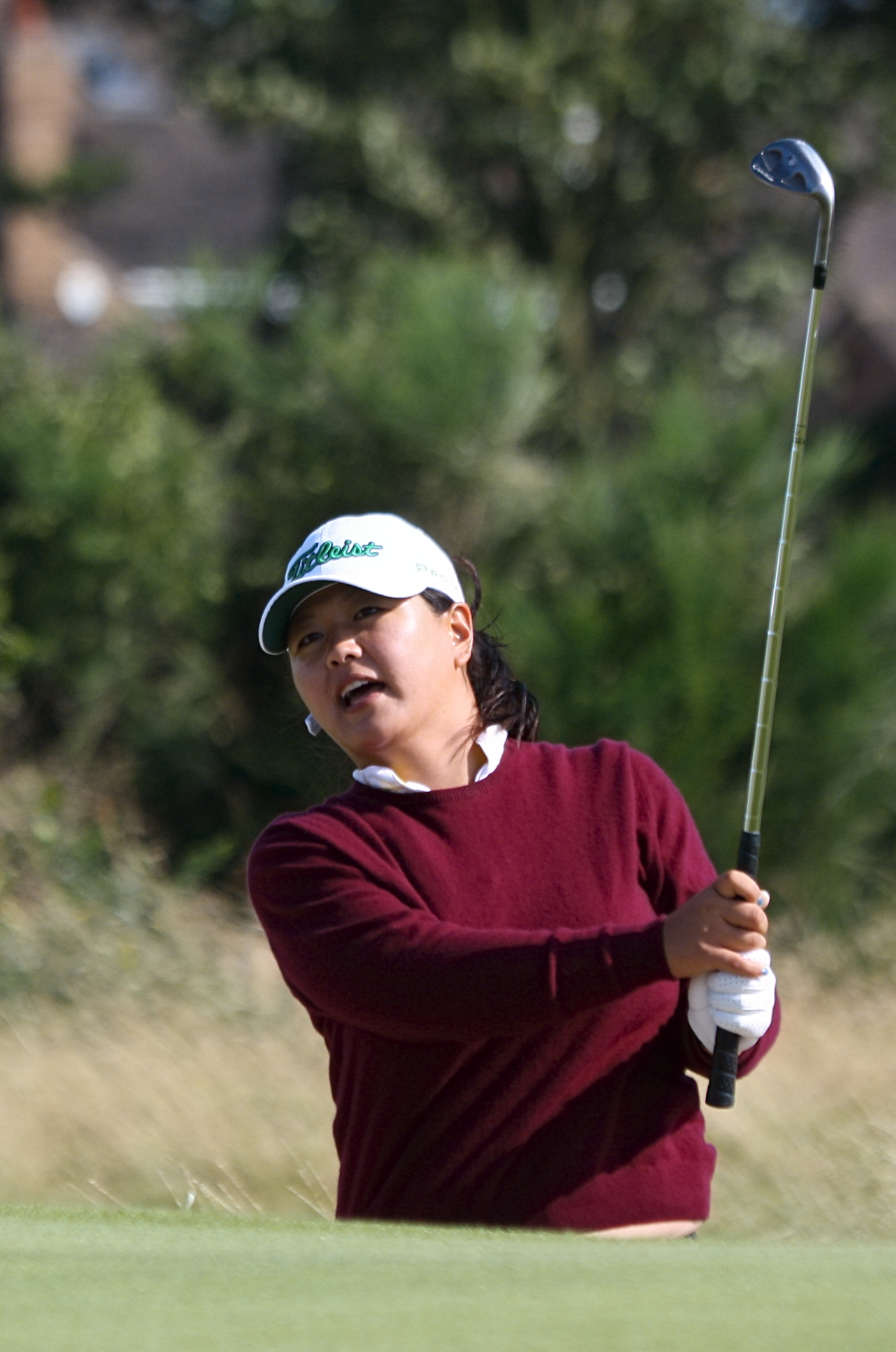 LYTHAM ST ANNES, UNITED KINGDOM - JULY 27: Christina Kim of USA in the bunker at the 4th green during first practice round before 2009 Ricoh Women's British Open held at Royal Lytham & St Annes on July 27, 2009 in Lytham St Annes, England. (Photo by Wojciech Migda)